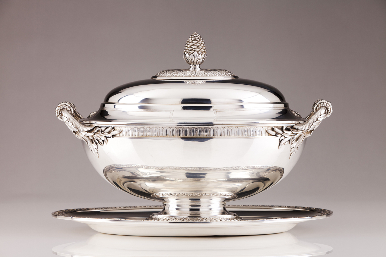 Rare and Important Louis XVI silver tureen, ROBERT-JOSEPH AUGUSTE, Paris, ca. 1784 Of oval shape, foot with frieze, plain body with relief neoclassic frieze, cast and chiselled handles depicting branches of leaves and fruits, cover with framed tab at two relief rosettes, pine cone and acanthus cover finial on relief calyx with leaves and fruits Charge and discharge marks of Paris (1783-1789), “Maison Commune” mark of 1784 and Robert-Joseph Auguste maker’s mark (act. 1757-1793) 19th century liner and stand with similar decoration, Tête de Minerve 1 mark and Debain & Flament maker’s mark (1874-1880) 28 x 38,5 x 23,5 cm 29 x 39,2 x 30,2 cm 2880 g (tureen) 5204 g (total)